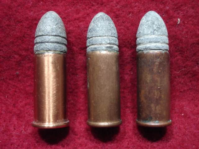 Photo of en:.44 Henry rimfire ammunition